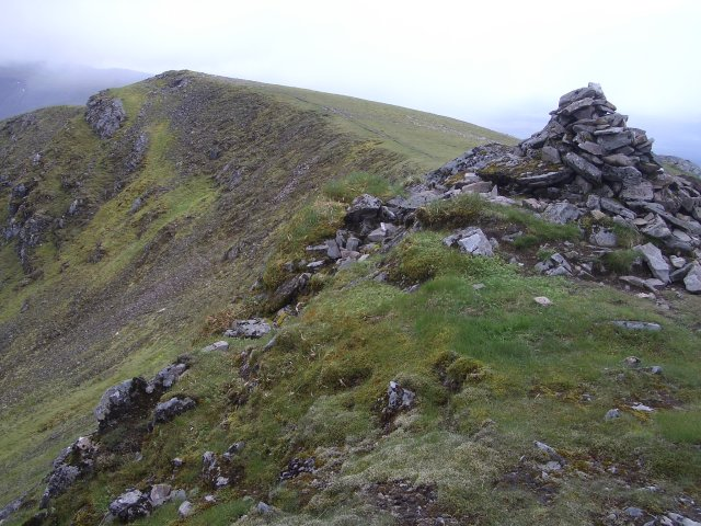 Twin summits of Beinn Eibhinn Two summits each marked as 1100m on the 1:25000 scale map. The western summit looks higher on the 1:50000 scale map and, perhaps as a result, it holds the cairn.